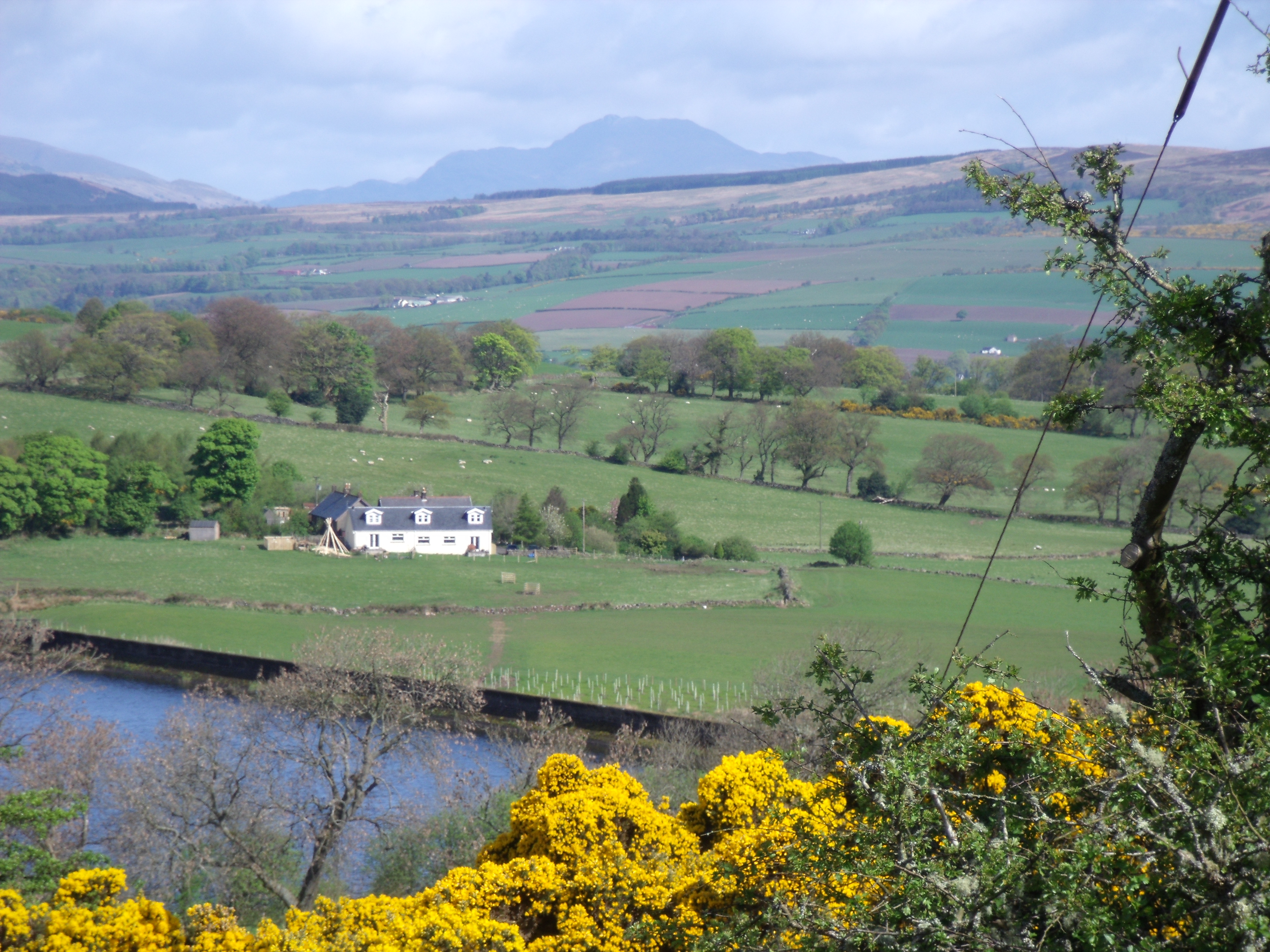 Kilmacolm parish in Renfrewshire, with a few towards Ben Lomo